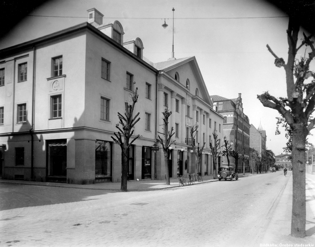 The People's Palace in Örebro, Sweden